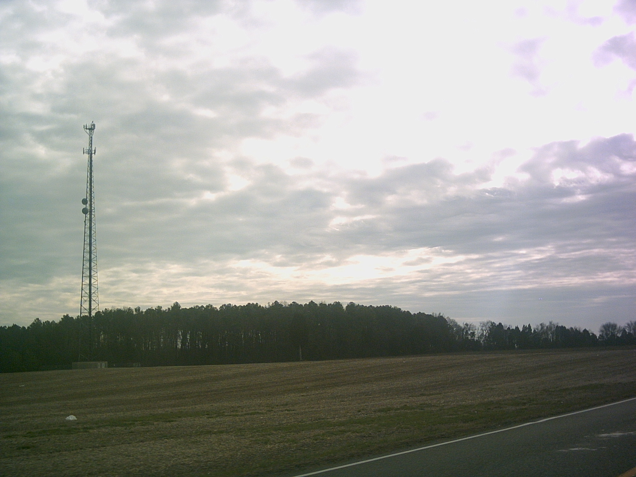 Image taken by me for Wikipedia